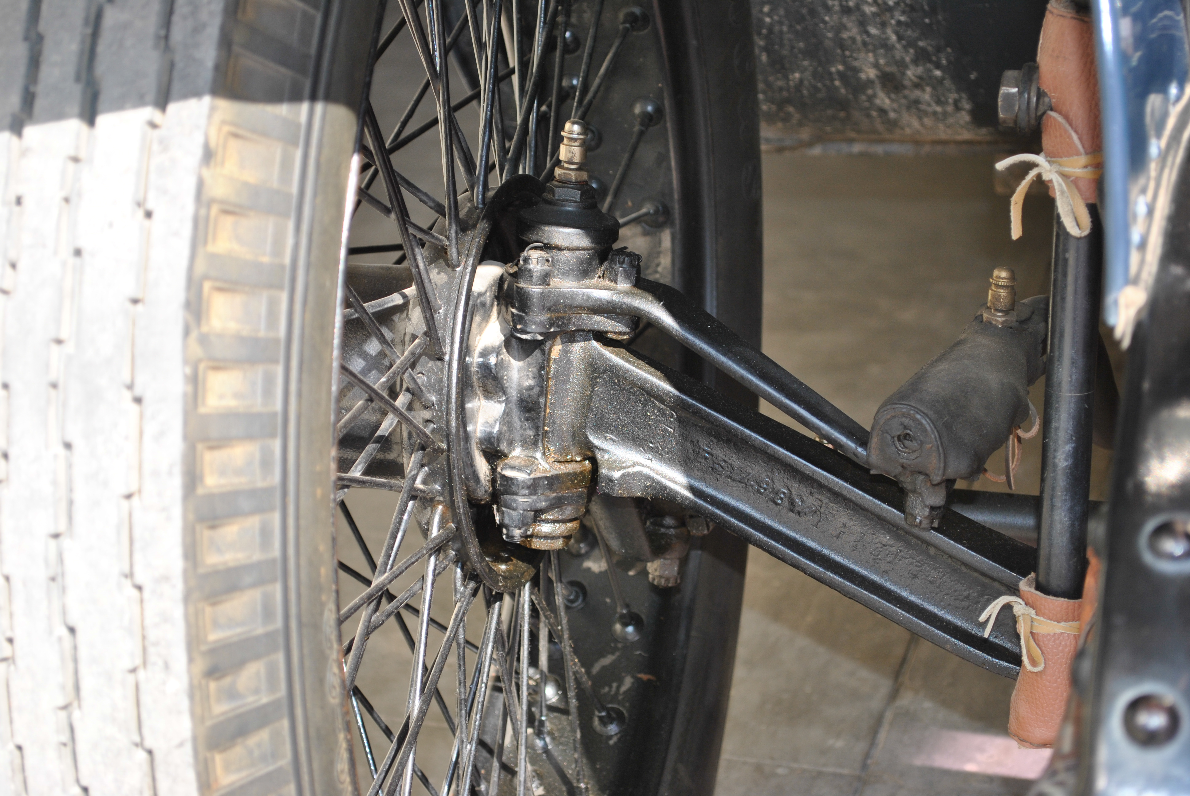 Right Front wheel assembly in a vintage car, Udaipur, Rajasthan